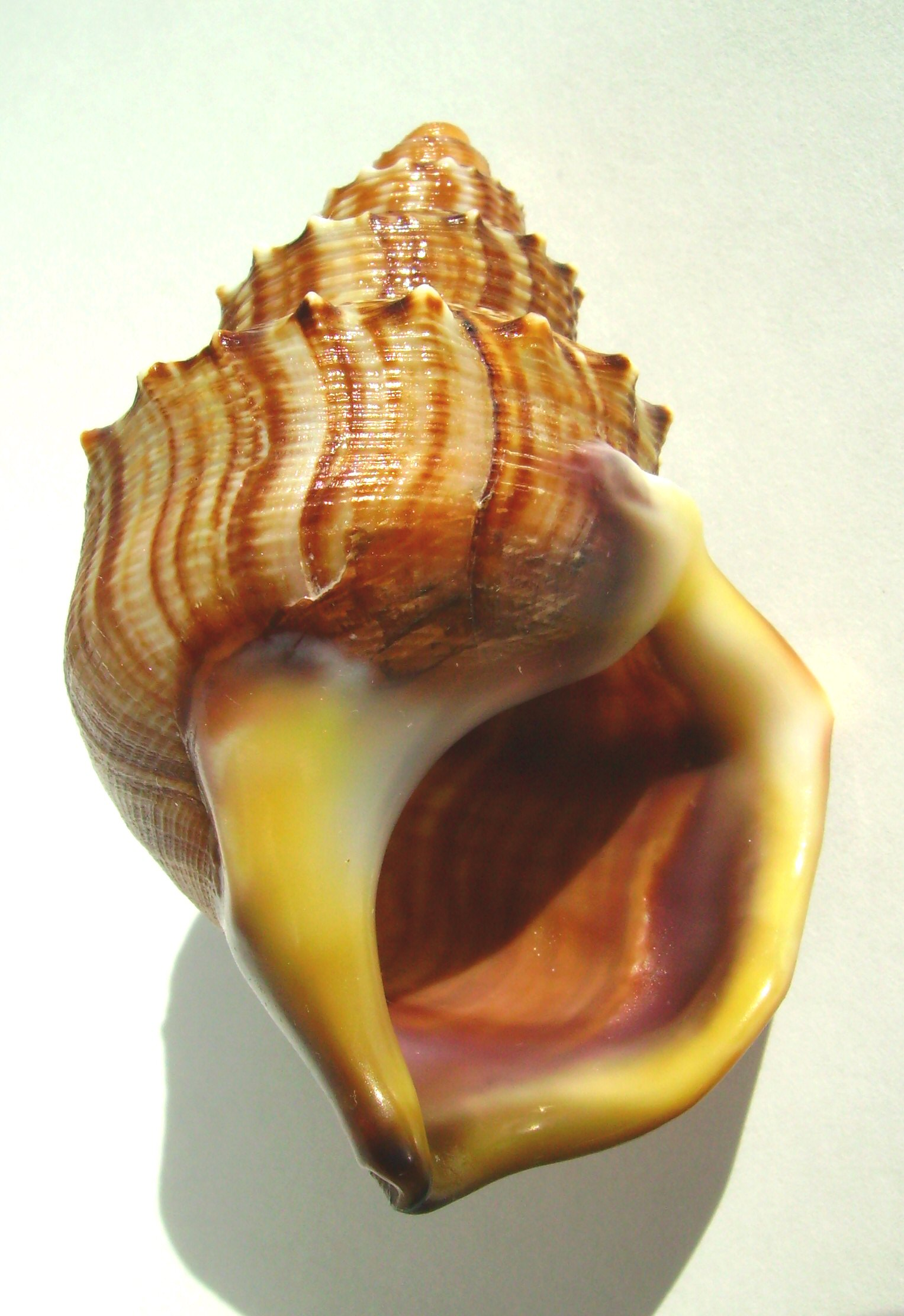 Struthiolaria papulosa (ostrich foot) (base view) dredged from Northland east coast, New Zealand. This work has been released into the public domain by its author, Graham Bould. This applies worldwide. In some countries this may not be legally possible; if so: Graham Bould grants anyone the right to use this work for any purpose, without any conditions, unless such conditions are required by law.